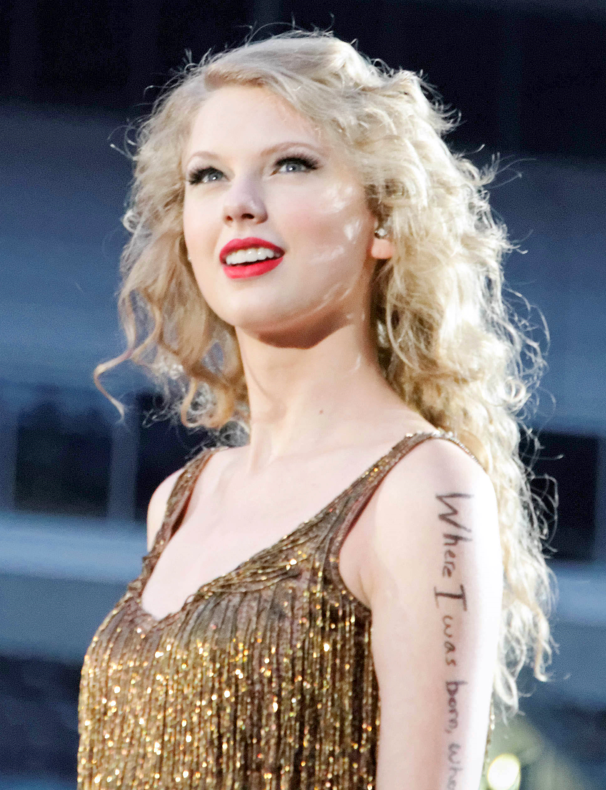 Taylor Swift performing live on Speak Now tour in June 2011 at Heinz Field, Pittsburgh